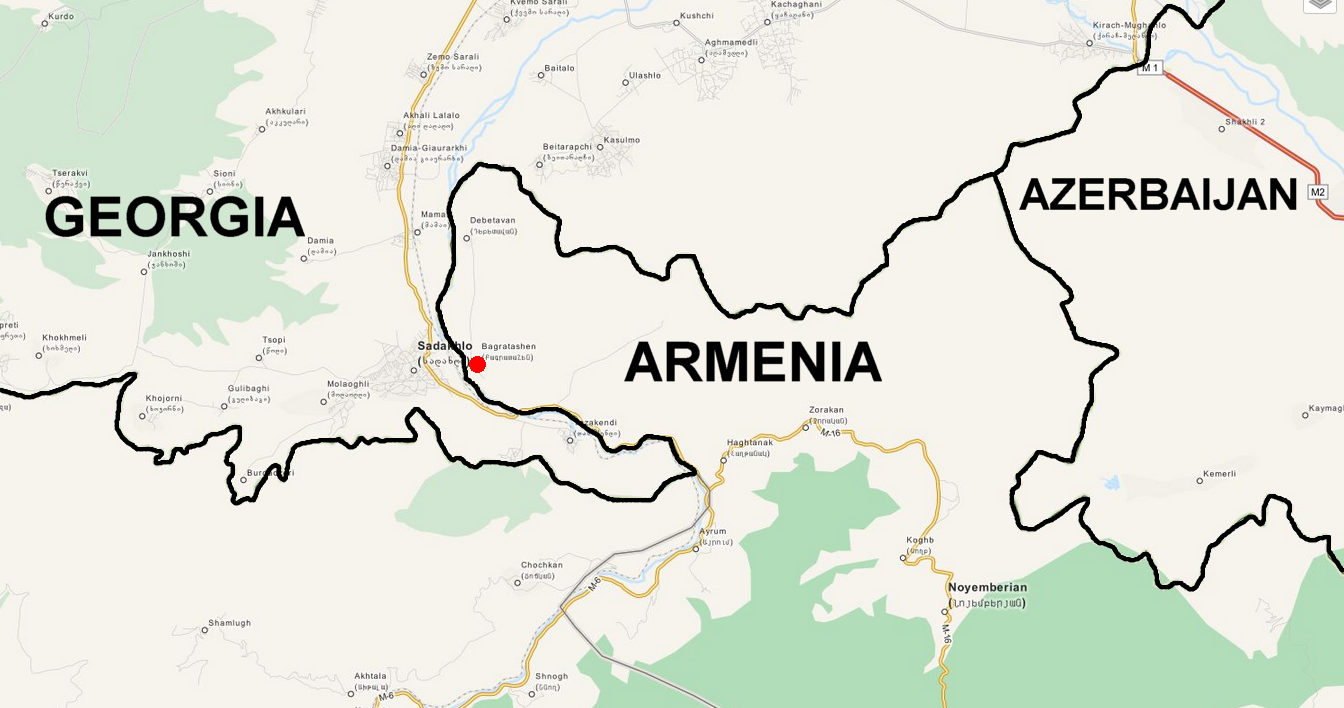 Bagratashen